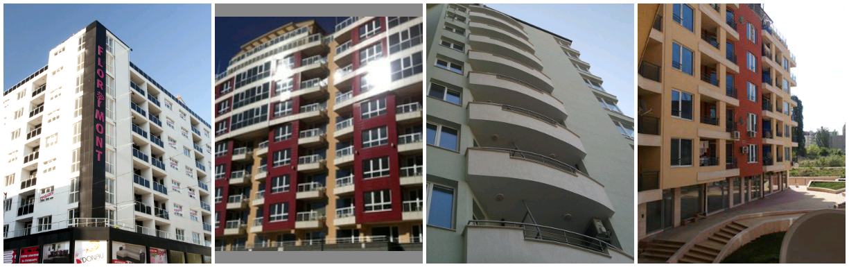 New buildings in Mladost